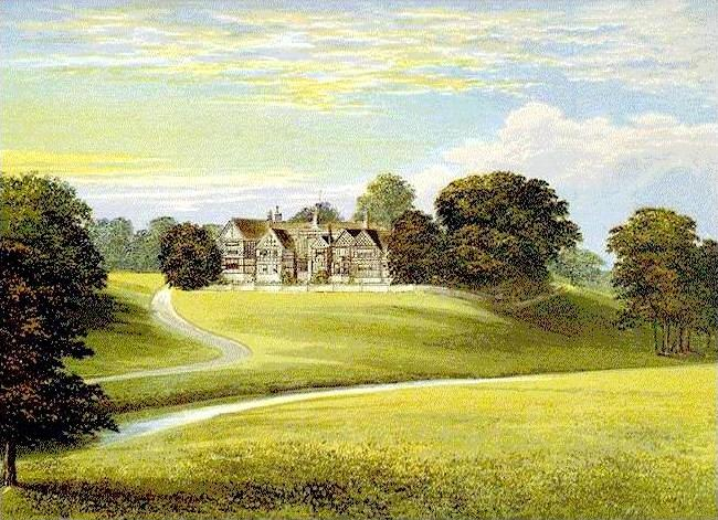 Bramall in 1880, showing the original structure of the drive.